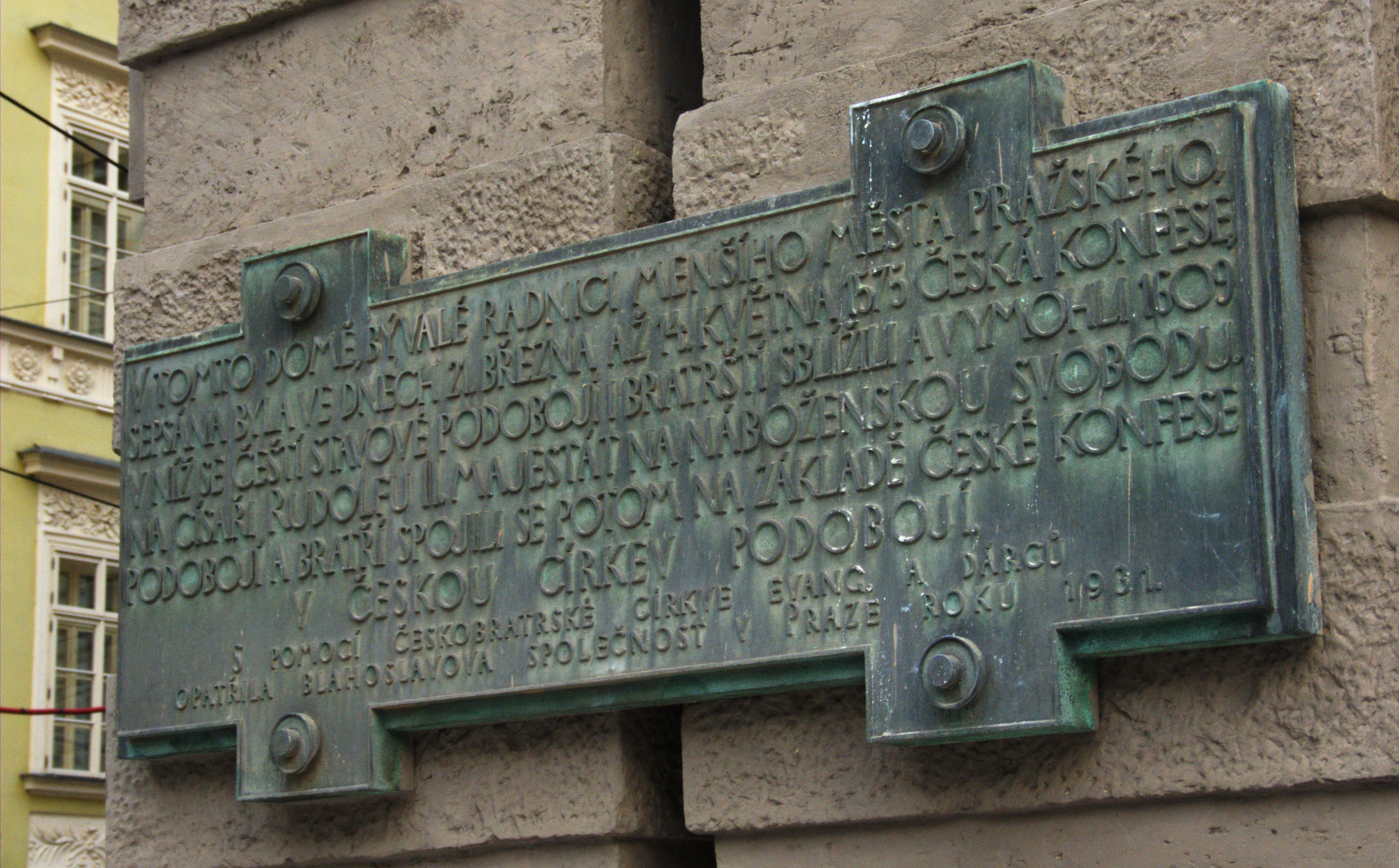 A plaque on the corner of former Malá Strana (Lesser Town side) Town Hall, Prague, CZ